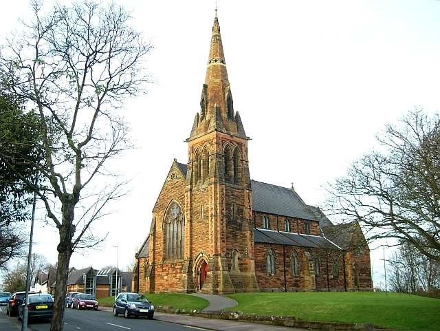 St James' parish church, St James' Road, Longsowerby, Carlisle, Cumbria, seen from the southwest